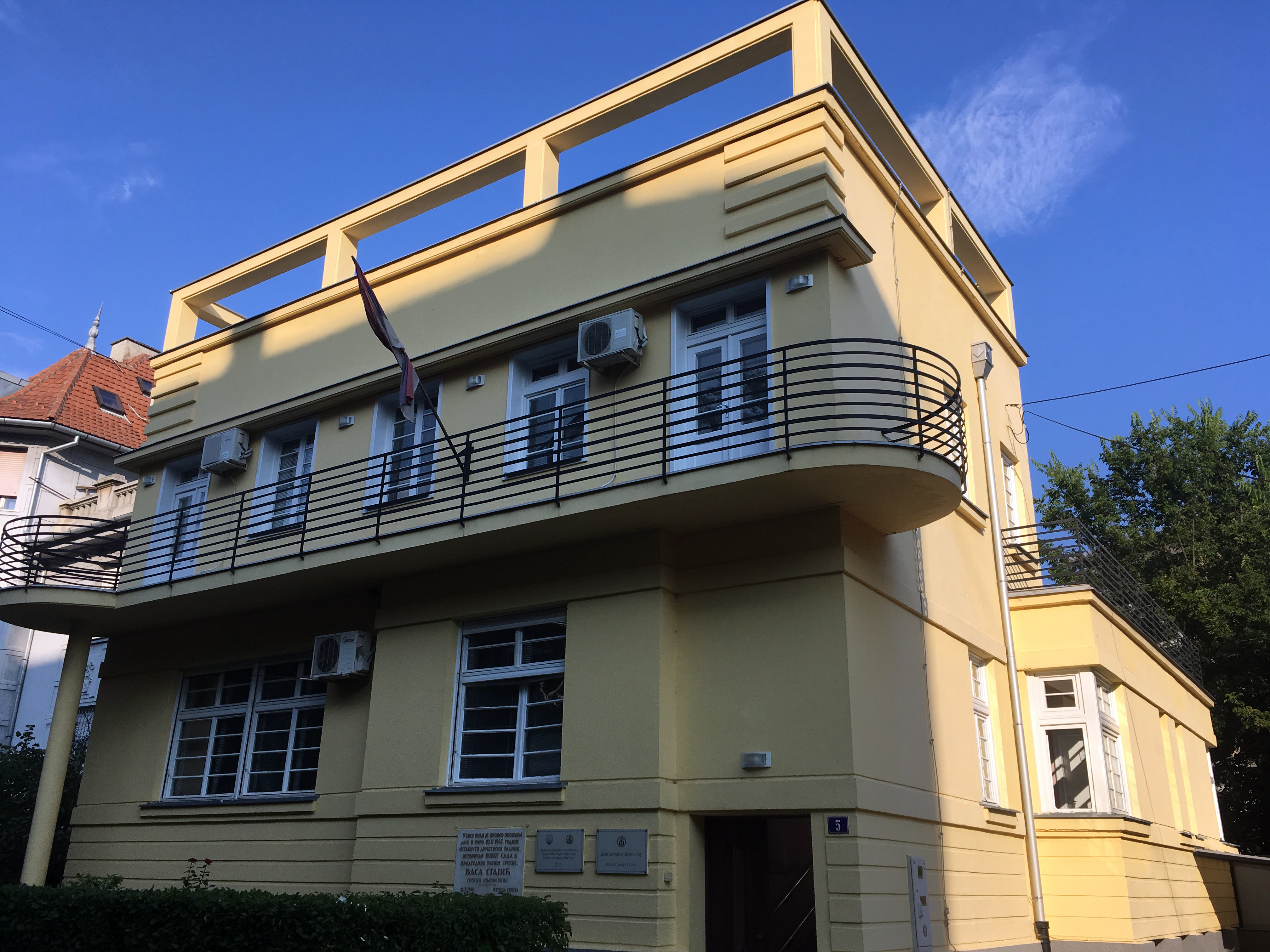 A house in which Vasa Stajić lived, Novi Sad.